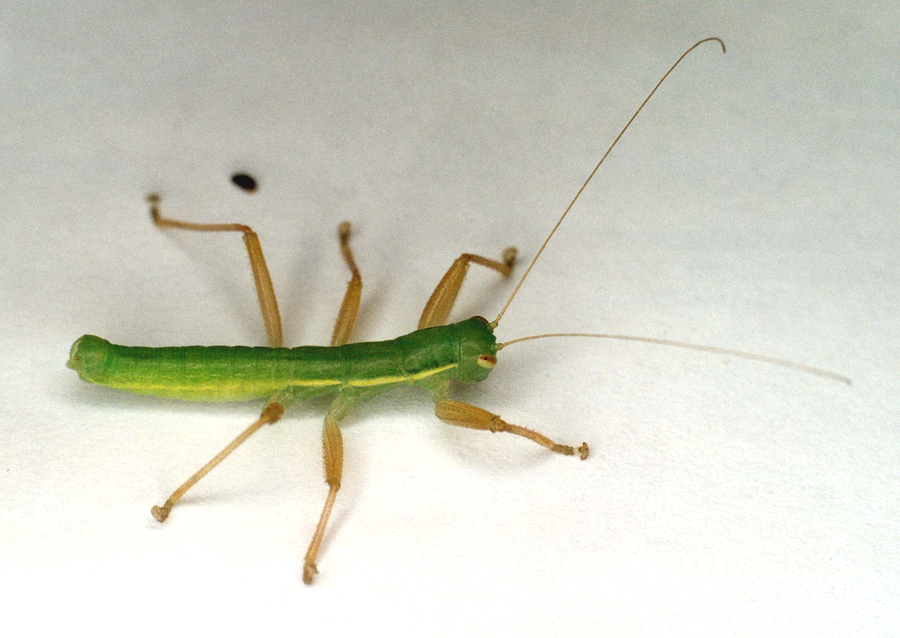 Mantophasma zephyra Zompro et al., 2002. A mantophasmid from Erongoberg, Namibia. It was collected on the first expedition to find living mantophasmids.